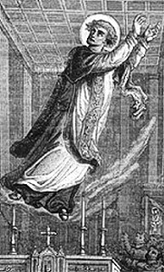 SaintJosephCupertino.jpg (181 × 300 pixel, file size: 35 KB, MIME type: image/jpeg)